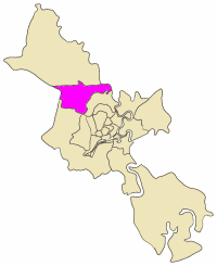 position of Hoc Mon district in an outline of the metropolitan area of HCMC (Ho Chi Minh City, Vietnam) - ISO code VN-F-HC. Keywords: map, outline, city, Ho Chi Minh City, HCMC, HCM, Hoc Mon district, huyen Hoc Mon.